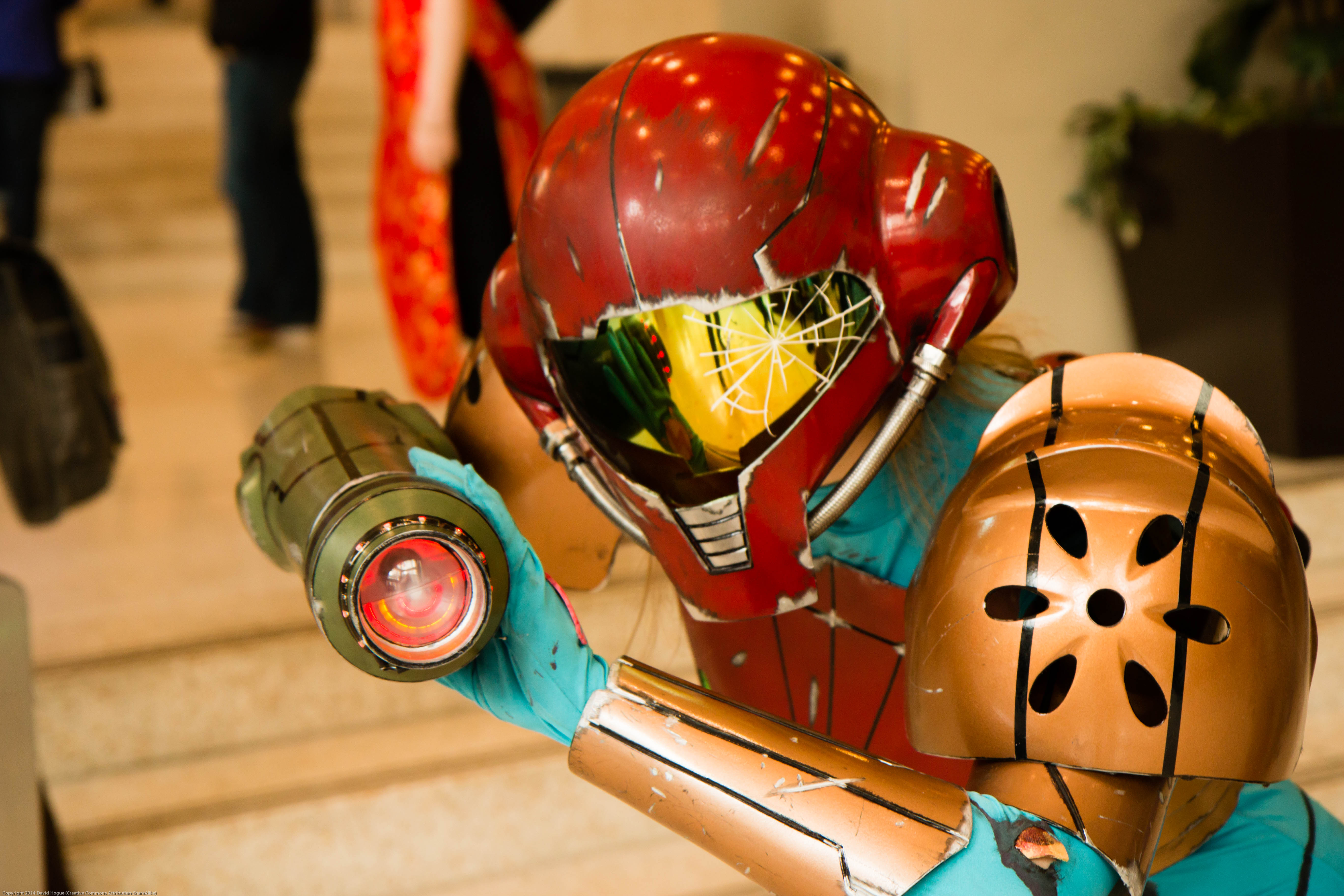 Cosplay of Samus Aran at Emerald City Comicon (ECCC) 2014.